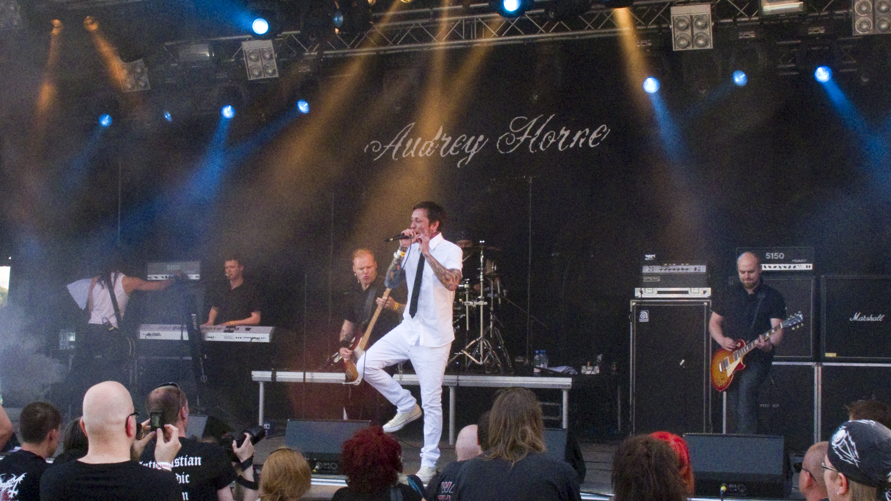 Audrey Horne playing at Sauna Open Air 2010. Location Tampere, Finland